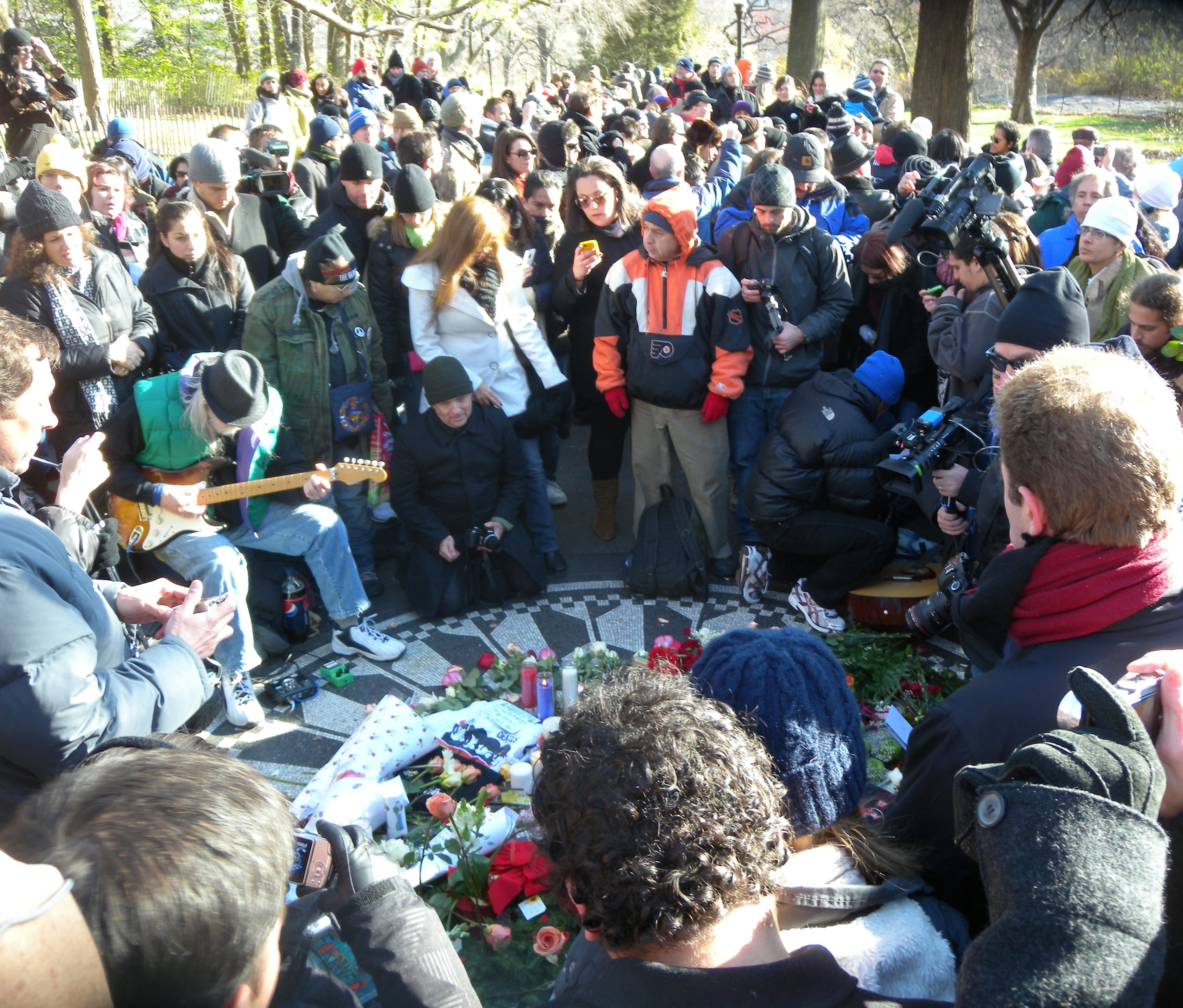 Looking southeast at 30th anniversary commemoration of Lennon's death.